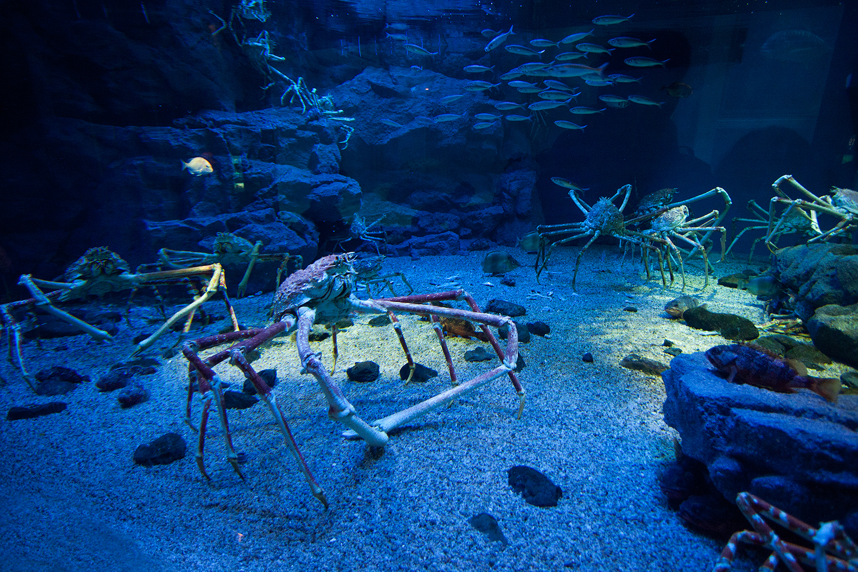 Japanese spider crab (高脚蟹, takāshigani, Macrocheira kaempferi) at Kaiyukan in Osaka, Japan.